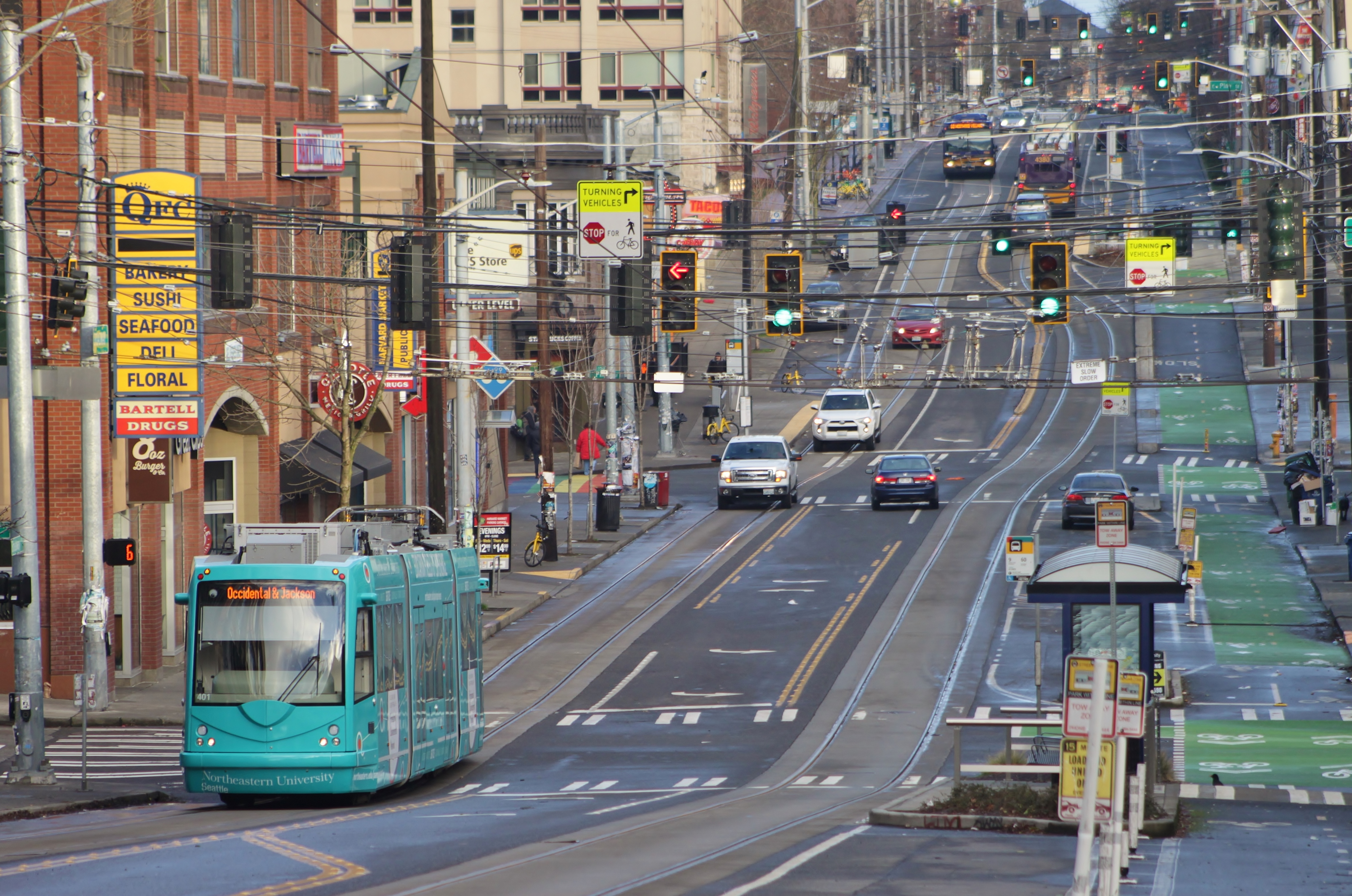 An Inekon 121 Trio streetcar on the Broadway section of the First Hill Streetcar in Seattle, Washington, US, which is parallel to a protected cycletrack.